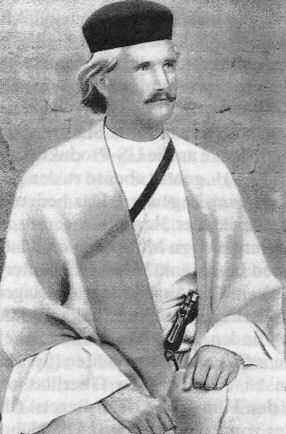 Wilhelm Wassmuss (1914)